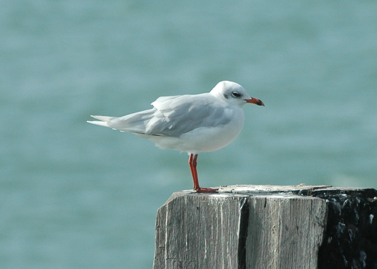 Mediterranean Gull (Larus melanocephalus) Southend, Essex, UK